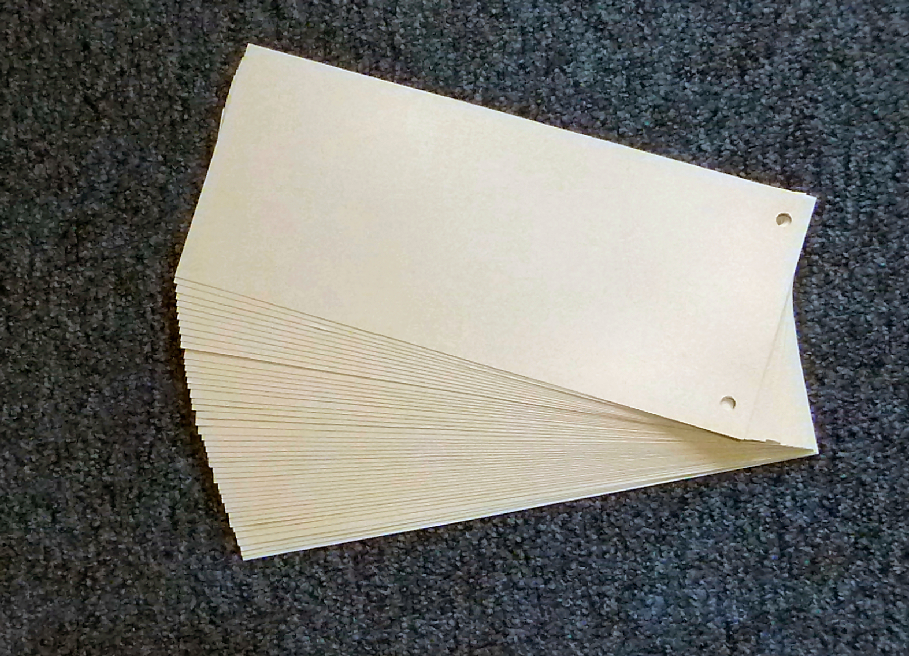 Dividing stripes for German Institute for Standardization A4 (portrait format) or German Institute for Standardization A5 (horizontal format)